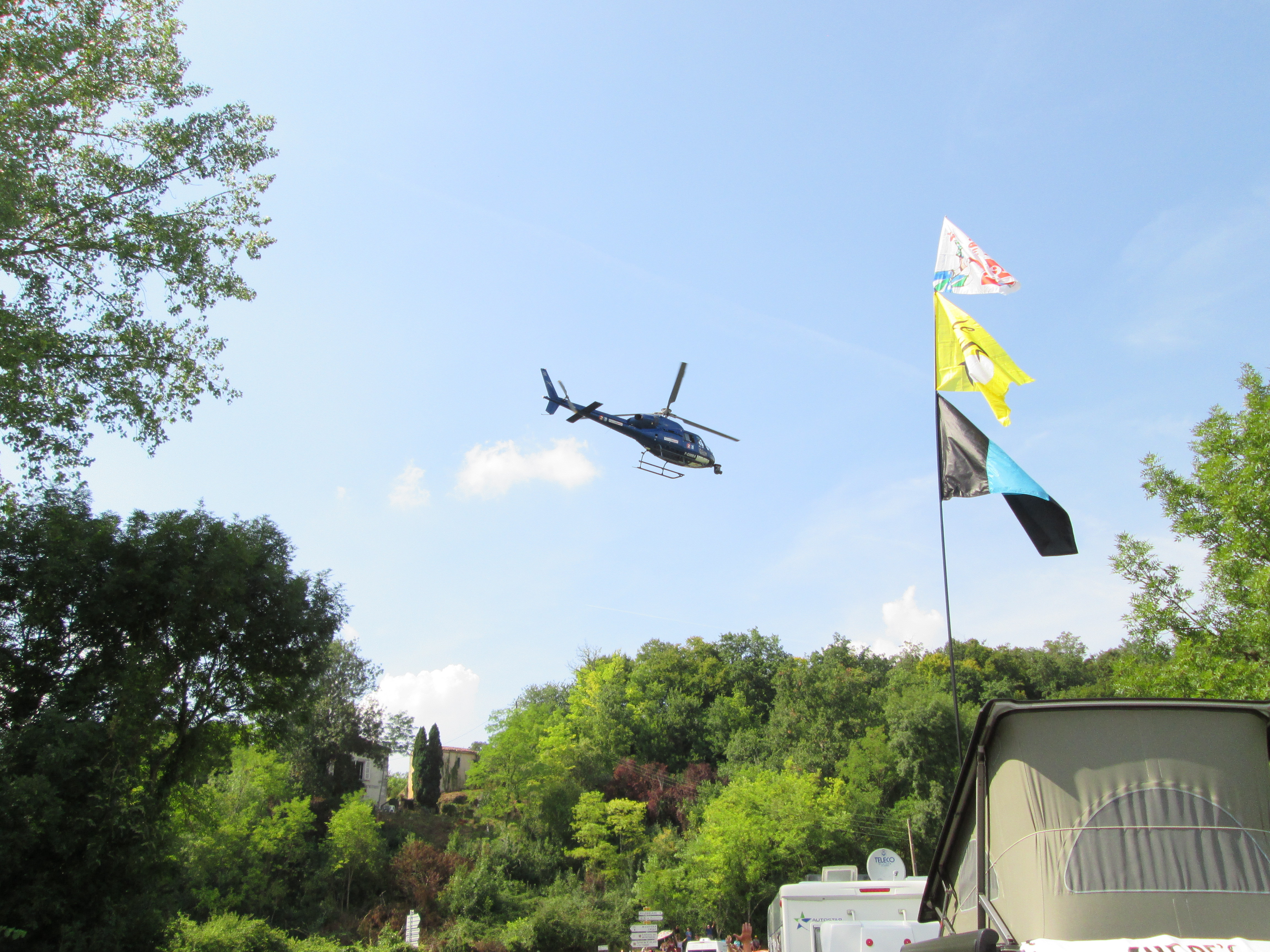 Eurocopter (now Airbus Helicopters) AS355 Ecureuil 2 (registration: F-GMBA) used by France Télévisions. 2014 Tour de France, Stage 20, near Beleymas, Dordogne.